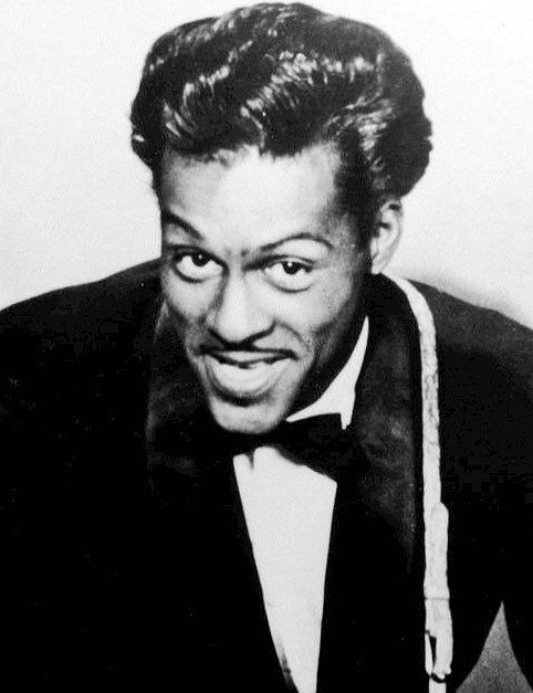 Publicity photo of Chuck Berry.